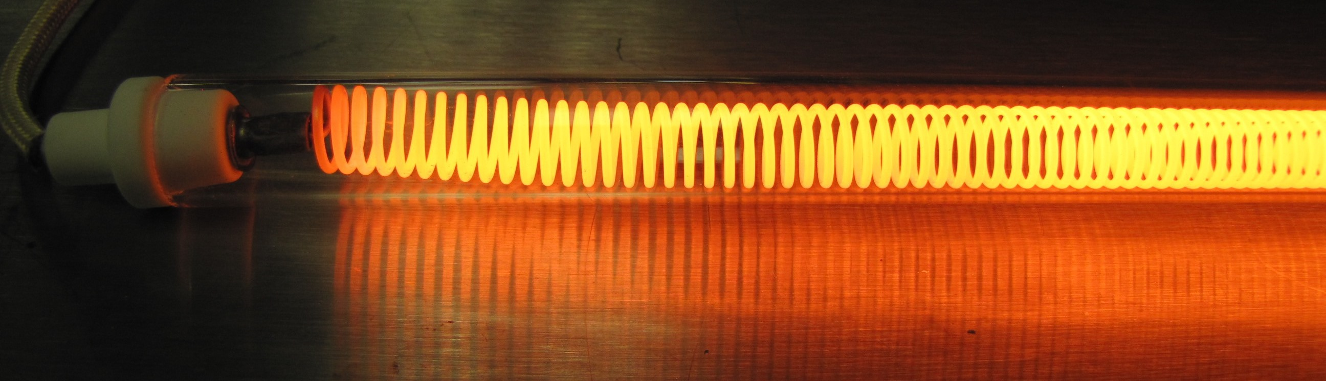 Powered quartz element from a commercial quartz conveyor toaster